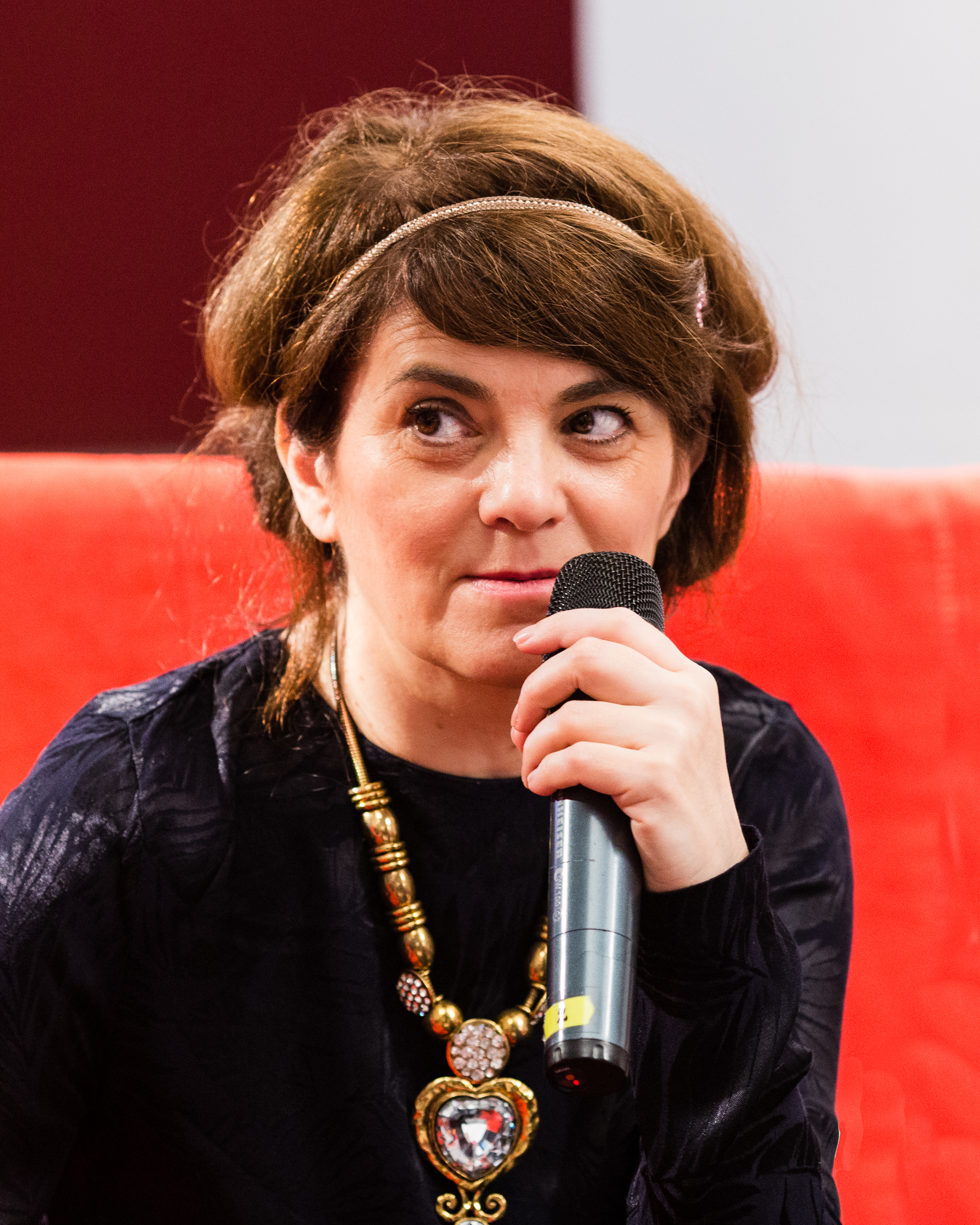 Svetlana Cârstean on Authors’ Reading Month 2019, Wrocław, Poland